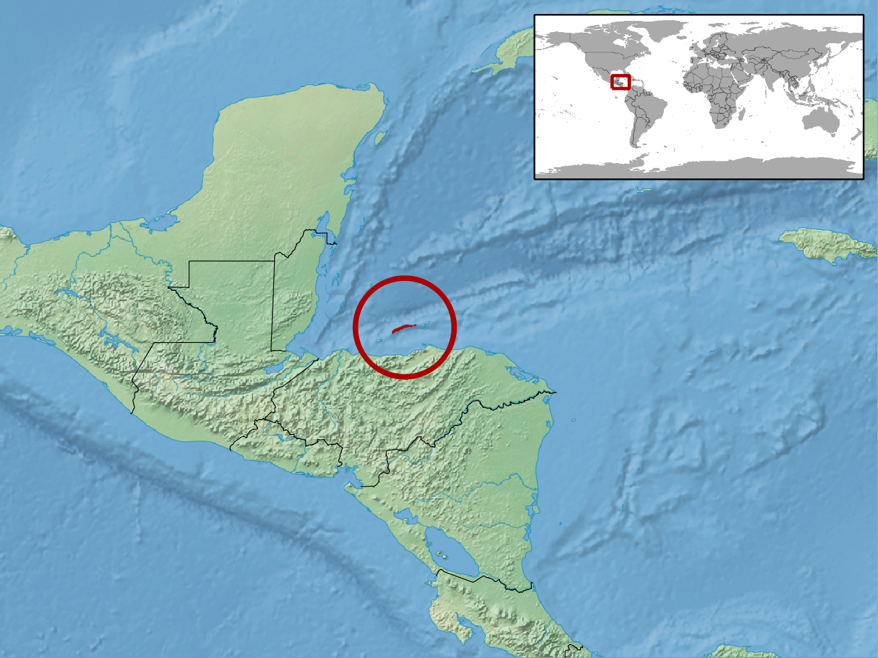 geographic distribution of Ctenosaura oedirhina (Native: Honduras (Honduran Caribbean Is.))